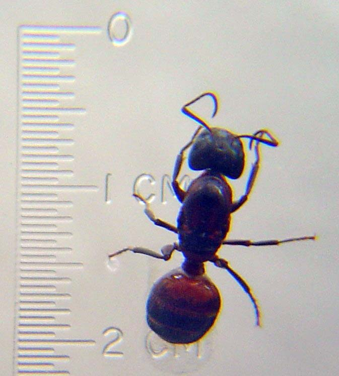 A carpenter ant, namely a queen (note the large thorax where wings attached before fertilization), in the Lower Saxony State Museum, Hanover.